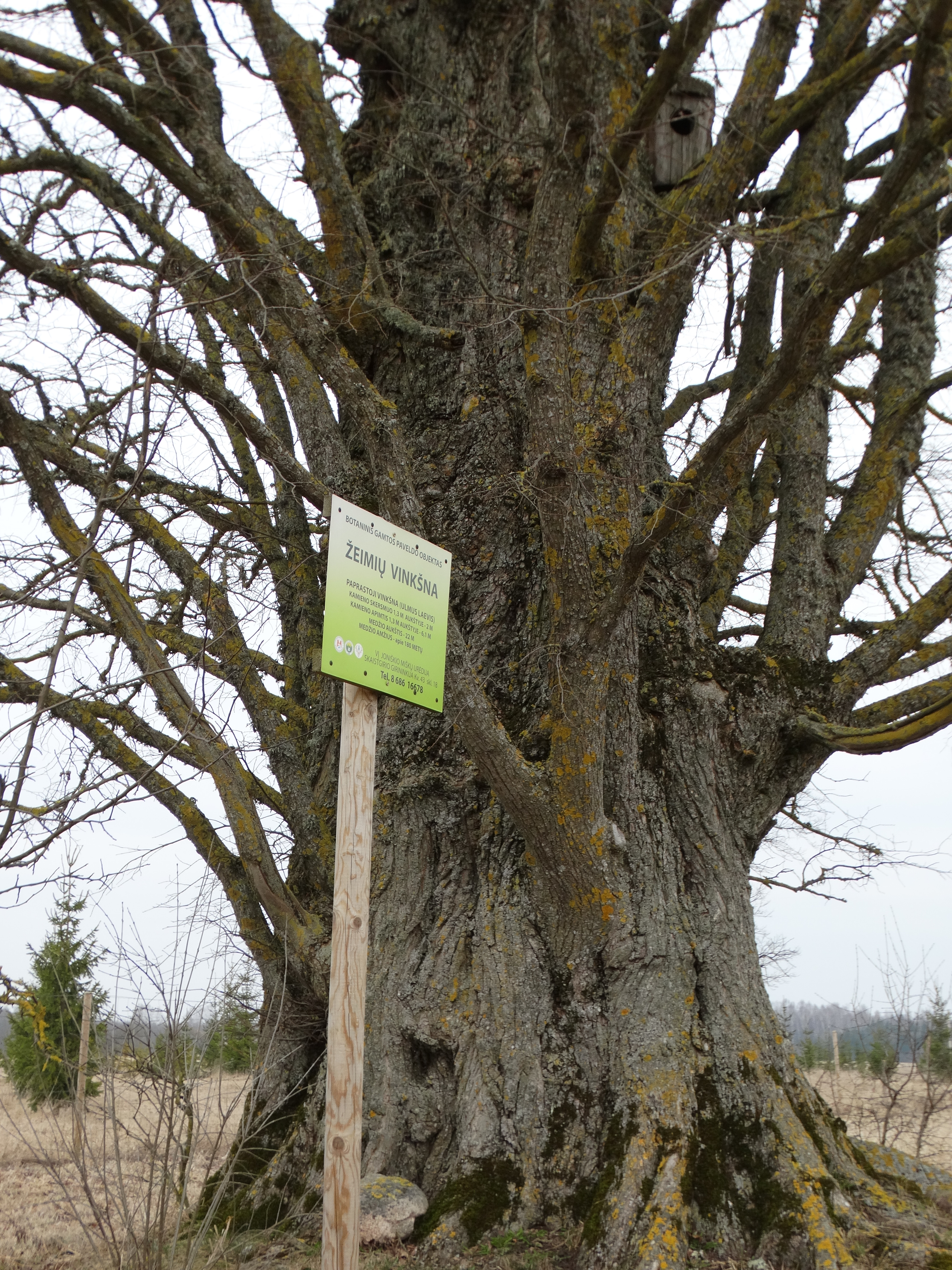 European White Elm, Žeimiai, Joniškis District, Lithuania